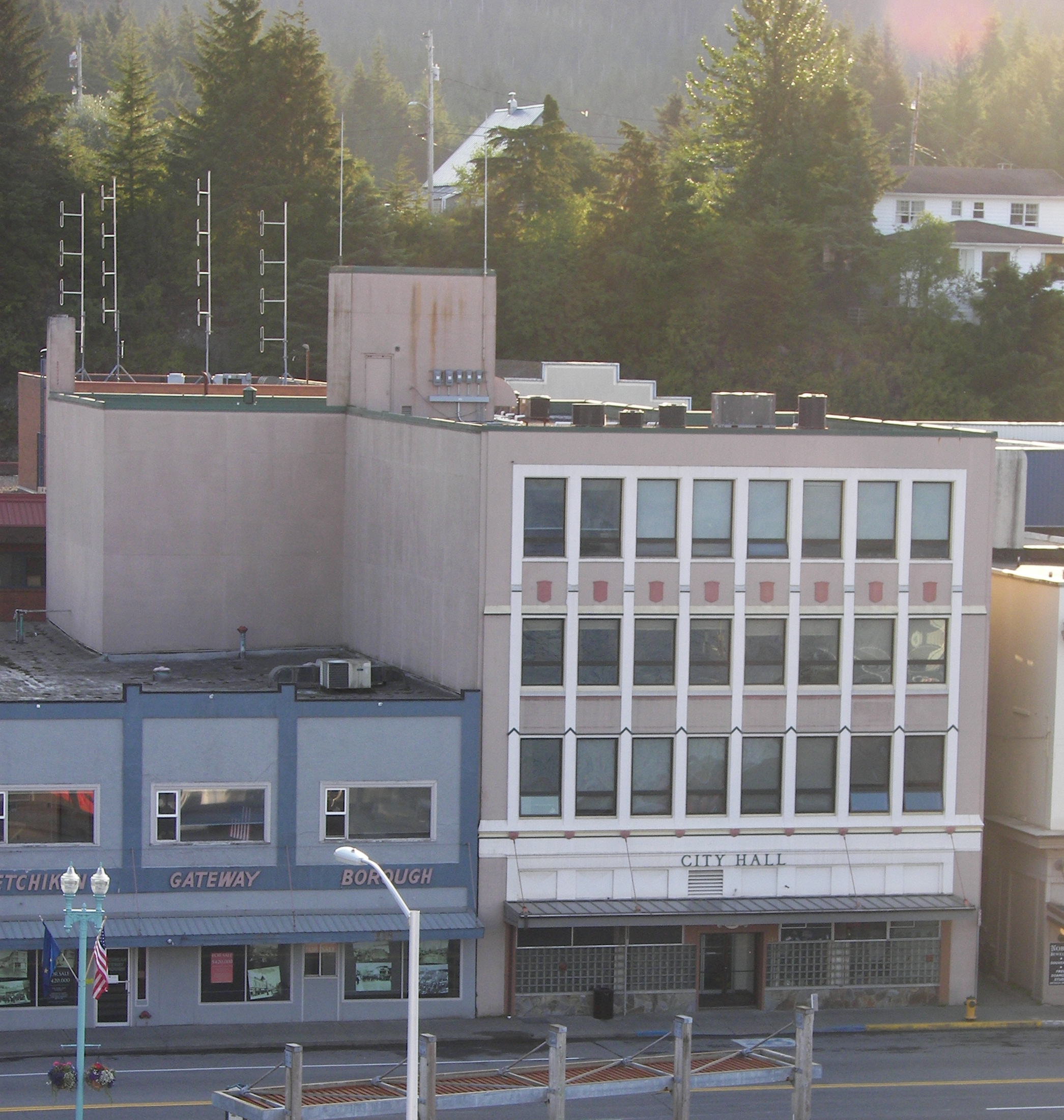 Ketchikan, Alaska City Hall from the east channel of the Tongass Narrows.